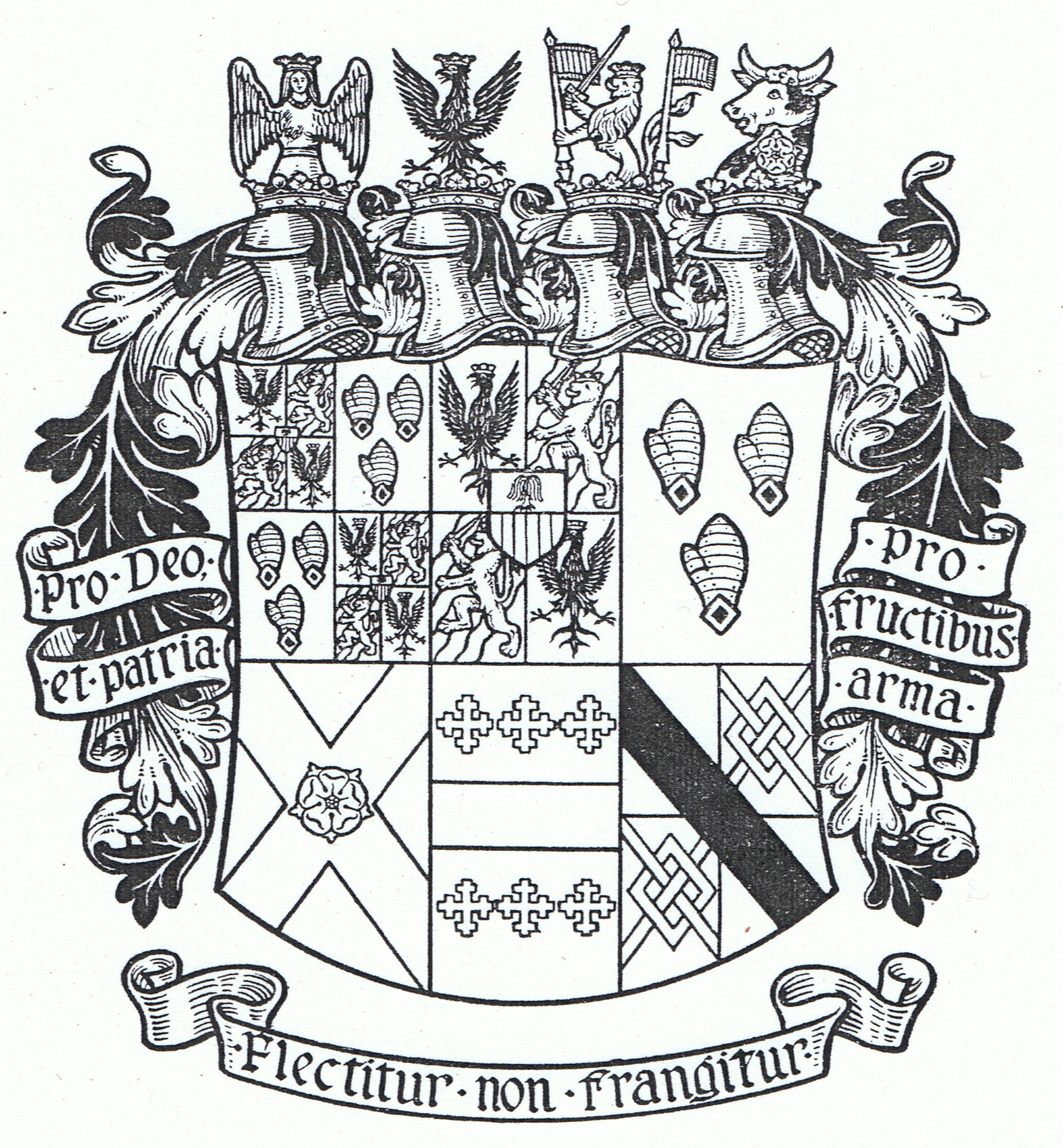 Shield and crests of de Salis, with the quarterings of Fane, Neville, Beauchamp, and Le Despenser